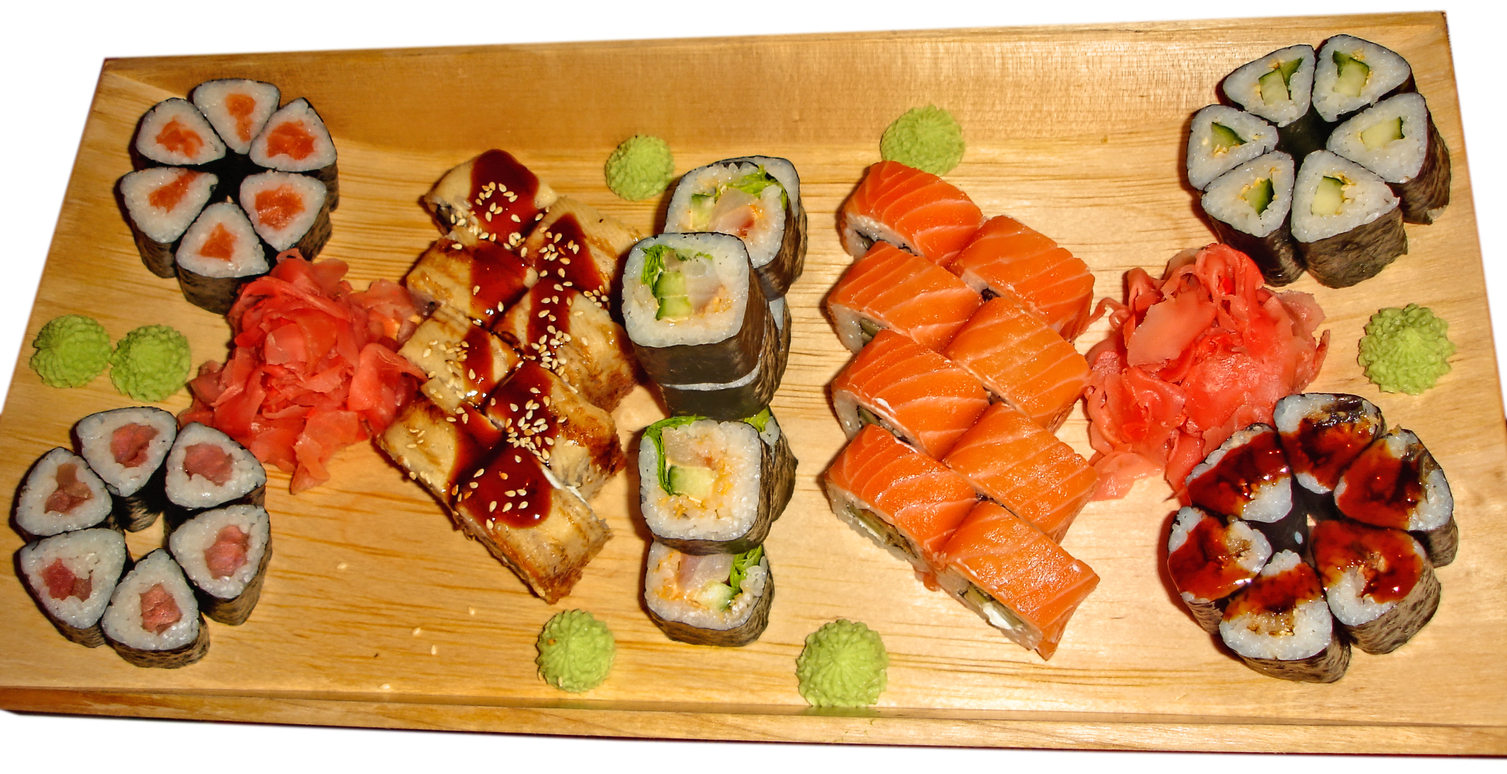 Rolls